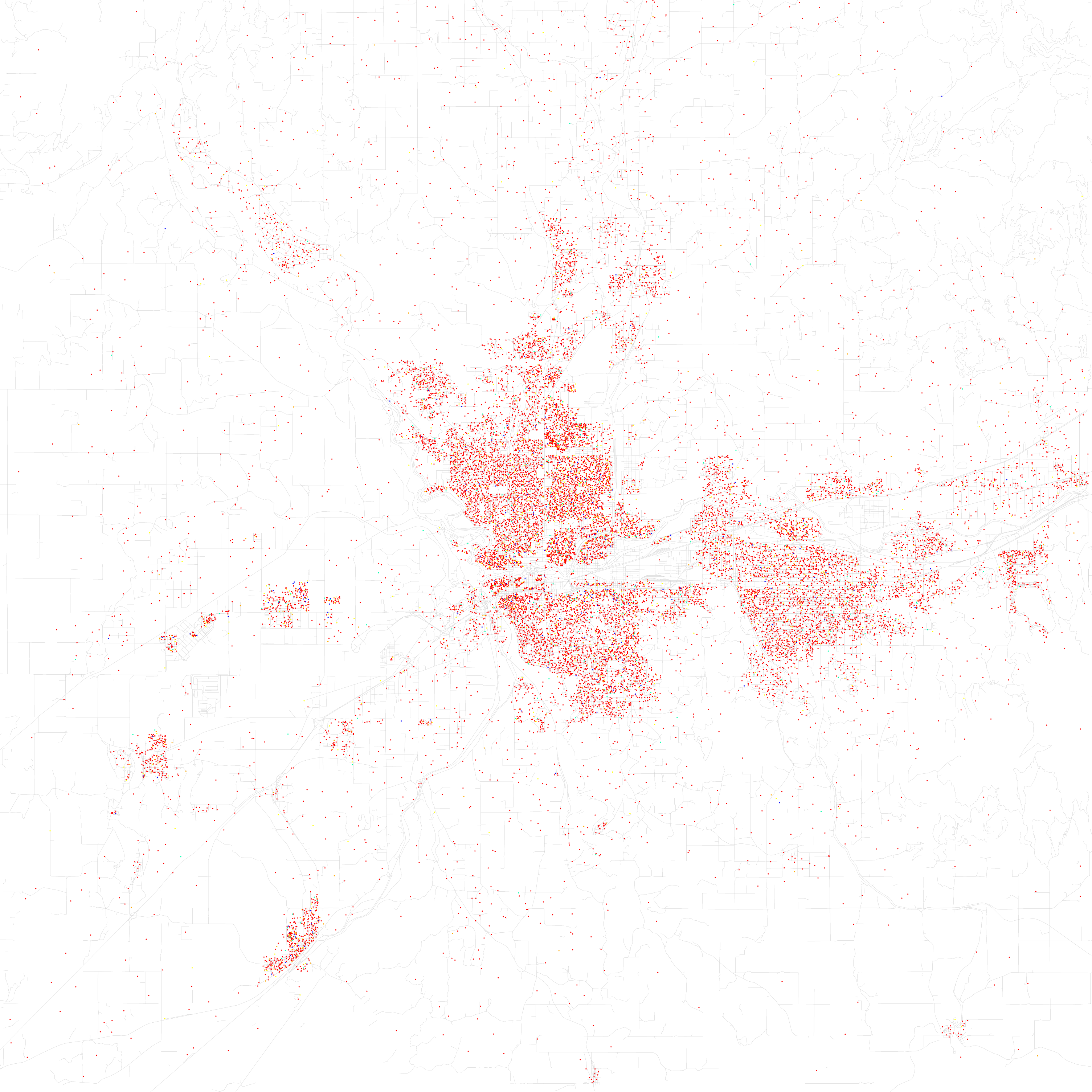 Maps of racial and ethnic divisions in US cities, inspired by Bill Rankin's map of Chicago, updated for Census 2010. Red is White, Blue is Black, Green is Asian, Orange is Hispanic, Yellow is Other, and each dot is 25 residents. Data from Census 2010. Base map © OpenStreetMap, CC-BY-SA